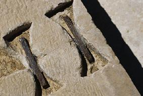 The Dovetail Staples from Pasargadae - World's oldest staple - 6th c. BCE